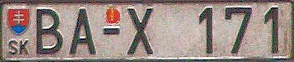 Slovakian license plate for officials, BA = Bratislava, X = Officials